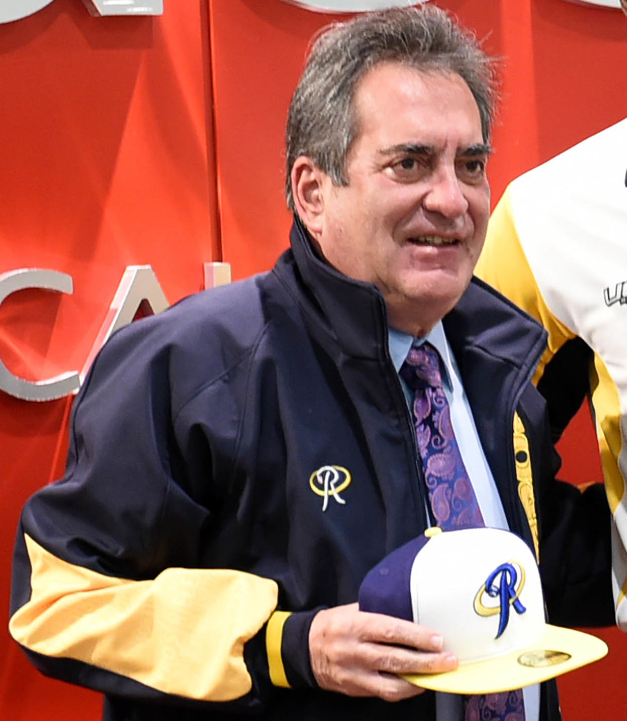 Carlos Lozano de la Torre, Governor of Aguascalientes, poses with Lorenzo Barcelo of the Rieleros de Aguascalientes in 2016.